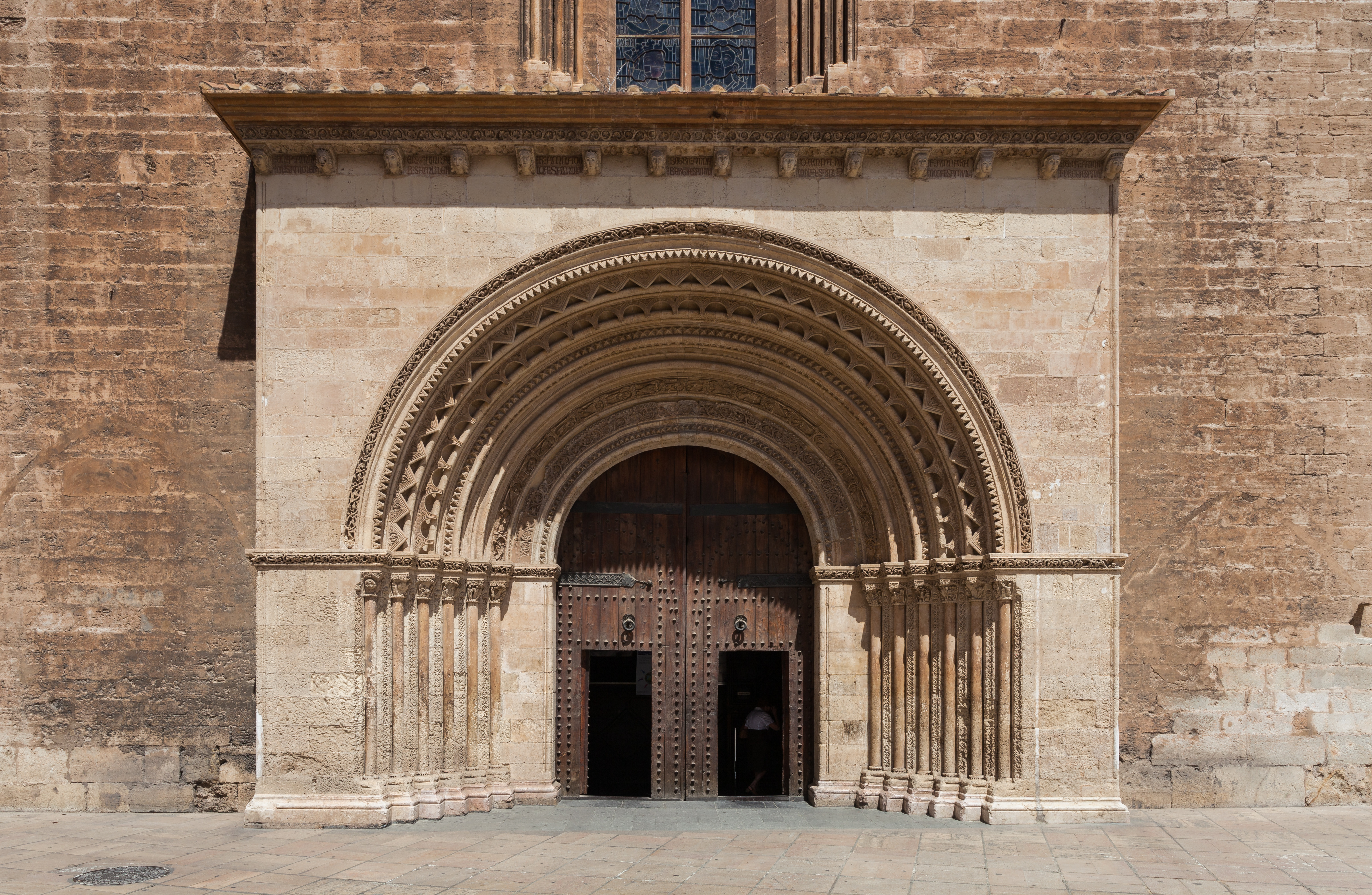 Valencia cathedral, Valencia, Spain